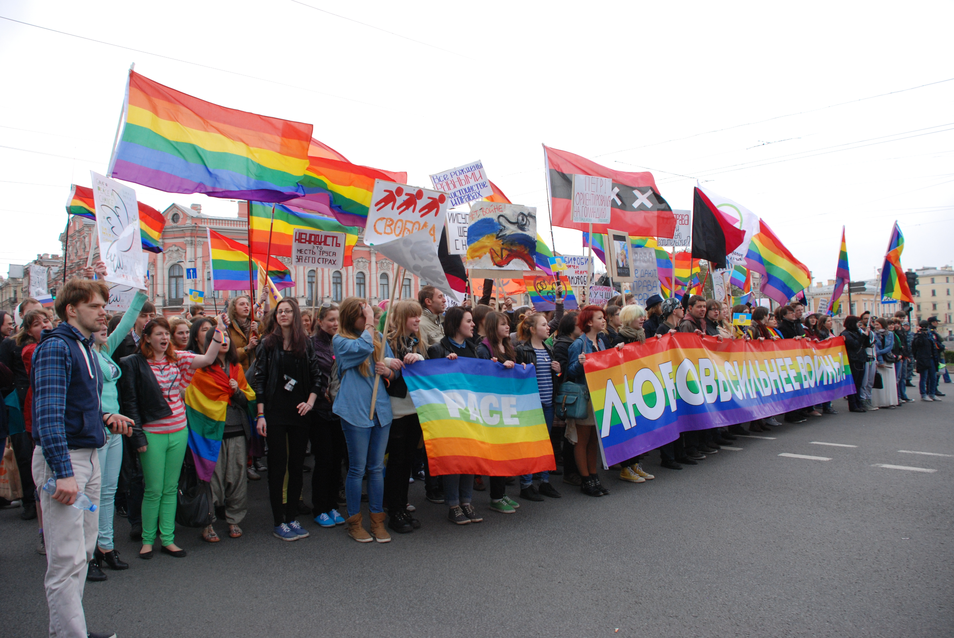 LGBT-Demonstration against the war in Ukraine and Russia in Saint-Petersburg